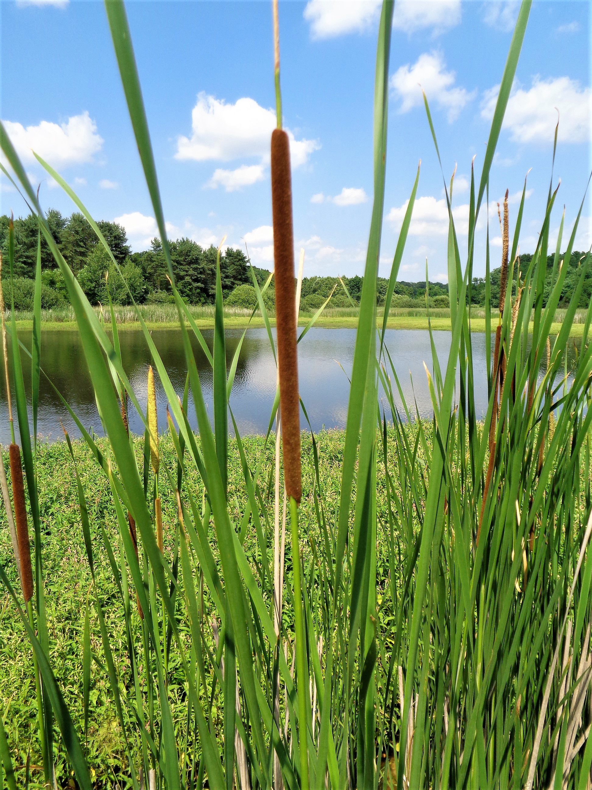 Jegerseg Reservoir, Medjimurie County, Croatia - Bulrush (Typha genus)